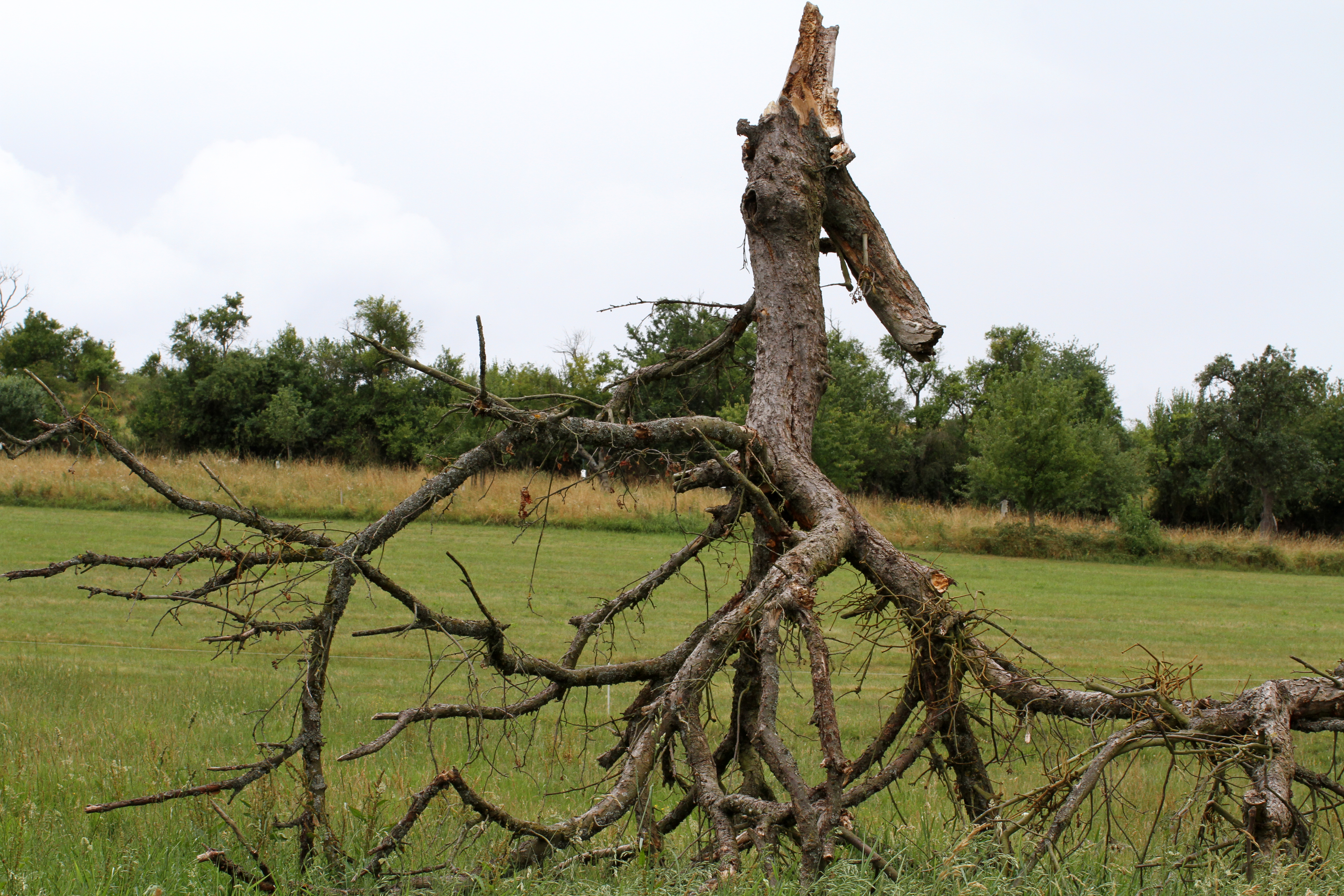 landscape Oberwesel, Rhine Valley/Germany.